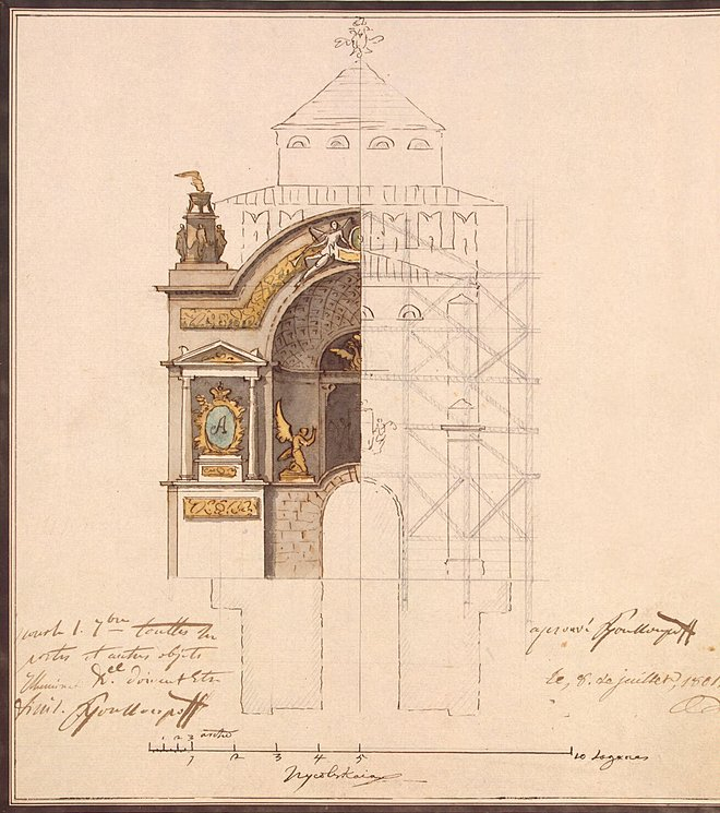 draft of decoration of the Nikolskaya Tower in Moscow for the 1801 coronation of Alexander I of Russia. Note the tower itself has not yet been crowned with present-day high spire (it was added a few years later, destroyed in 1812 and again rebuilt)